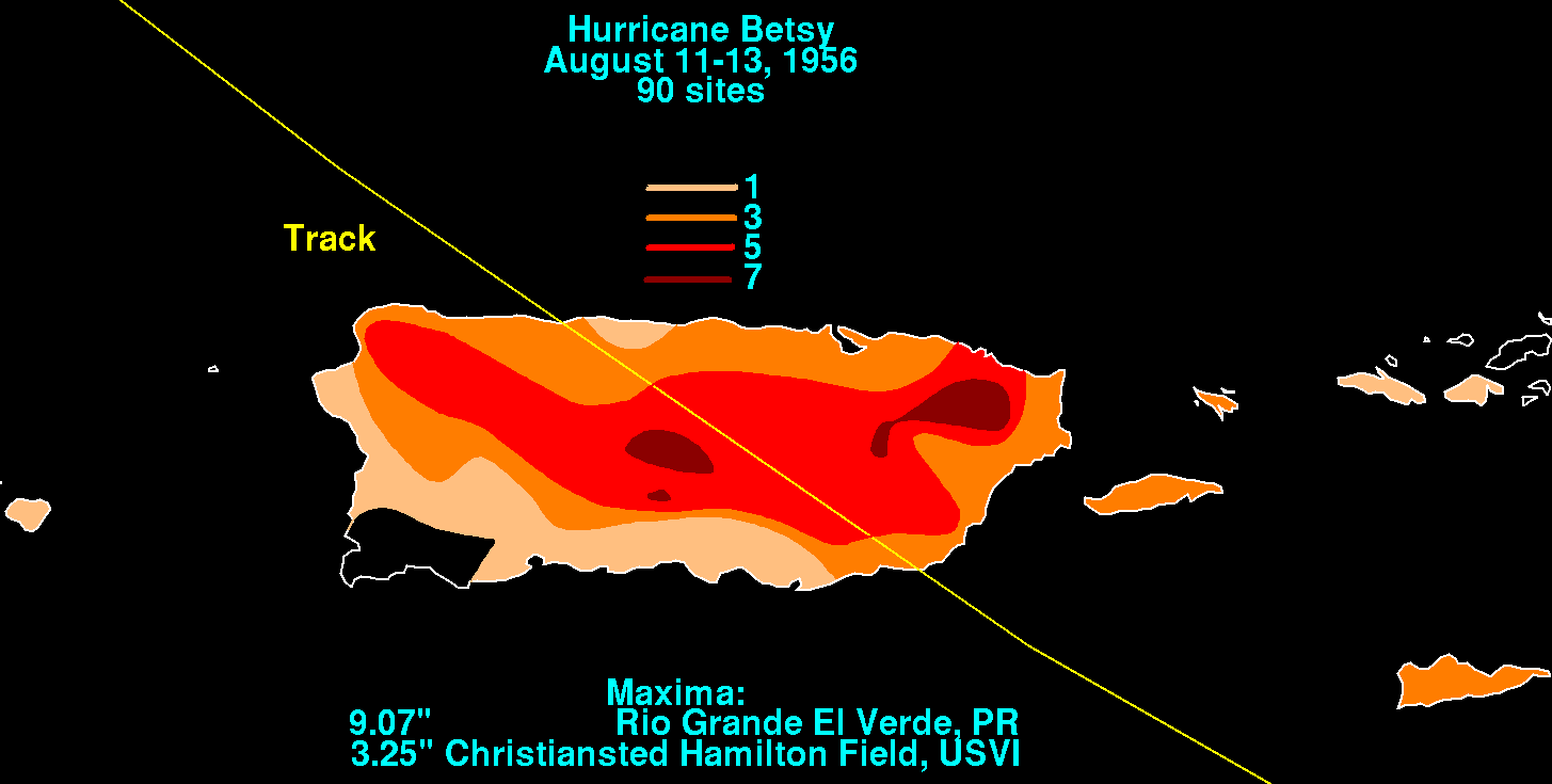 Storm total rainfall map of Hurricane Betsy during August 1956.